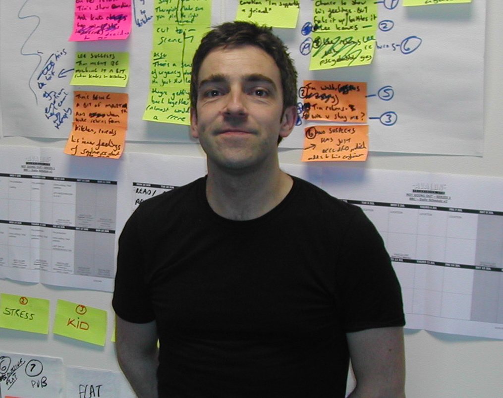 Andrew Collins standing in front of a board with sticky notes on it.